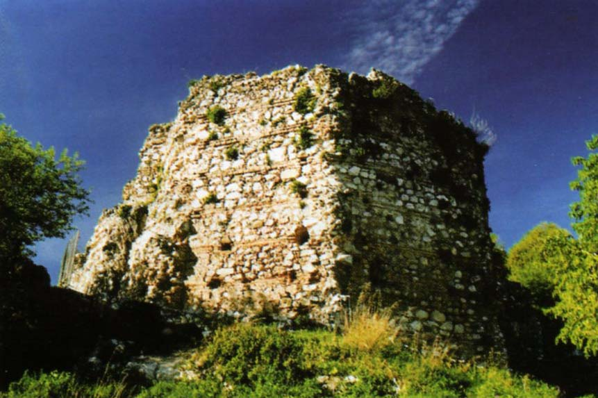 Abside antes de que empezaran las excavaciones